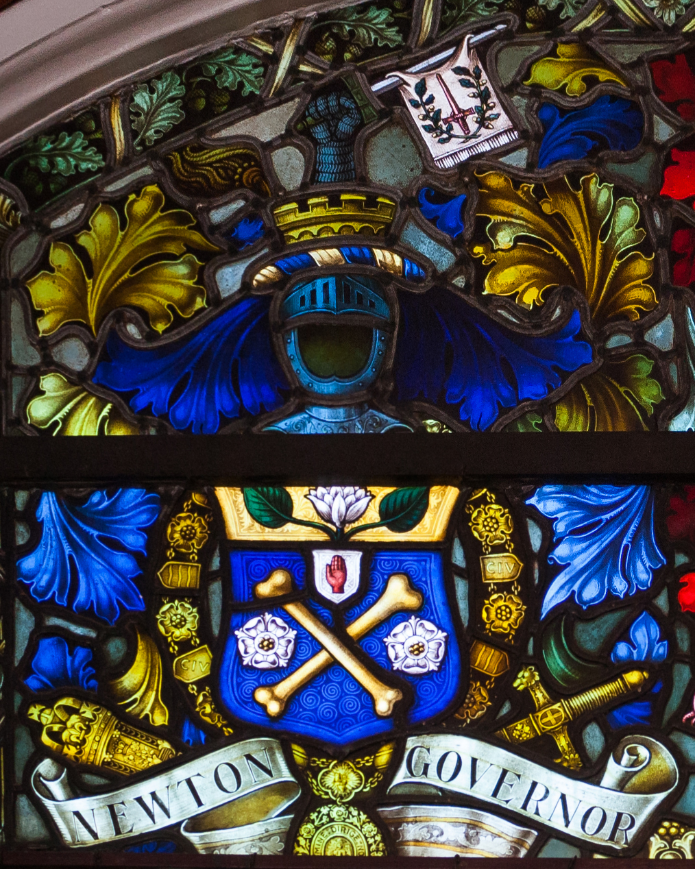 Detail of the memorial window of the Irish Society, erected at its tercentenary (1613–1913), depicting the coat of arms of Sir Alfred James Newton, governor of the Irish Society from 1906 to his death 1921. Blazon as quoted from Arthur Charles Fox-Davies, Armorial families: “Azure, two shin-bones in saltire, the sinister surmounted of the dexter or, between as many roses in fesse argent, barbed and seeded proper, on a chief of the second a lotus-flower leaved and slipped of the last.”